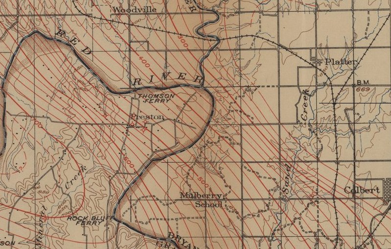 Portion of map included in a report entitled: Contributions to economic geology (short papers and preliminary reports), 1922, Part II, Mineral fuels, by K. C. Heald. U. S. Geological Survey Bulletin 736 Plate IV Indexed from departmental edition (EIN137 B936 no. 735-738) Structure contours by O.B. Hopkins, Sidney Powers, and H. M. Robinson.